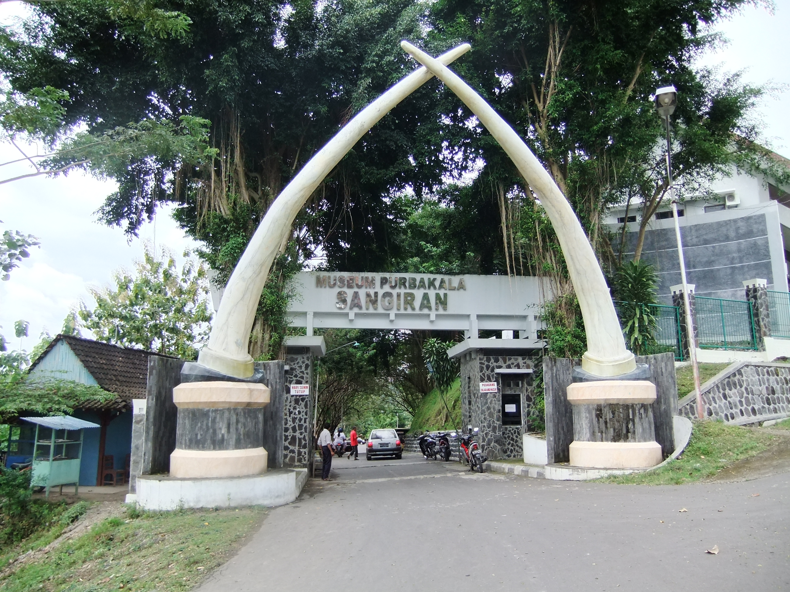 Sangiran Museum, Sragen, Indonesia